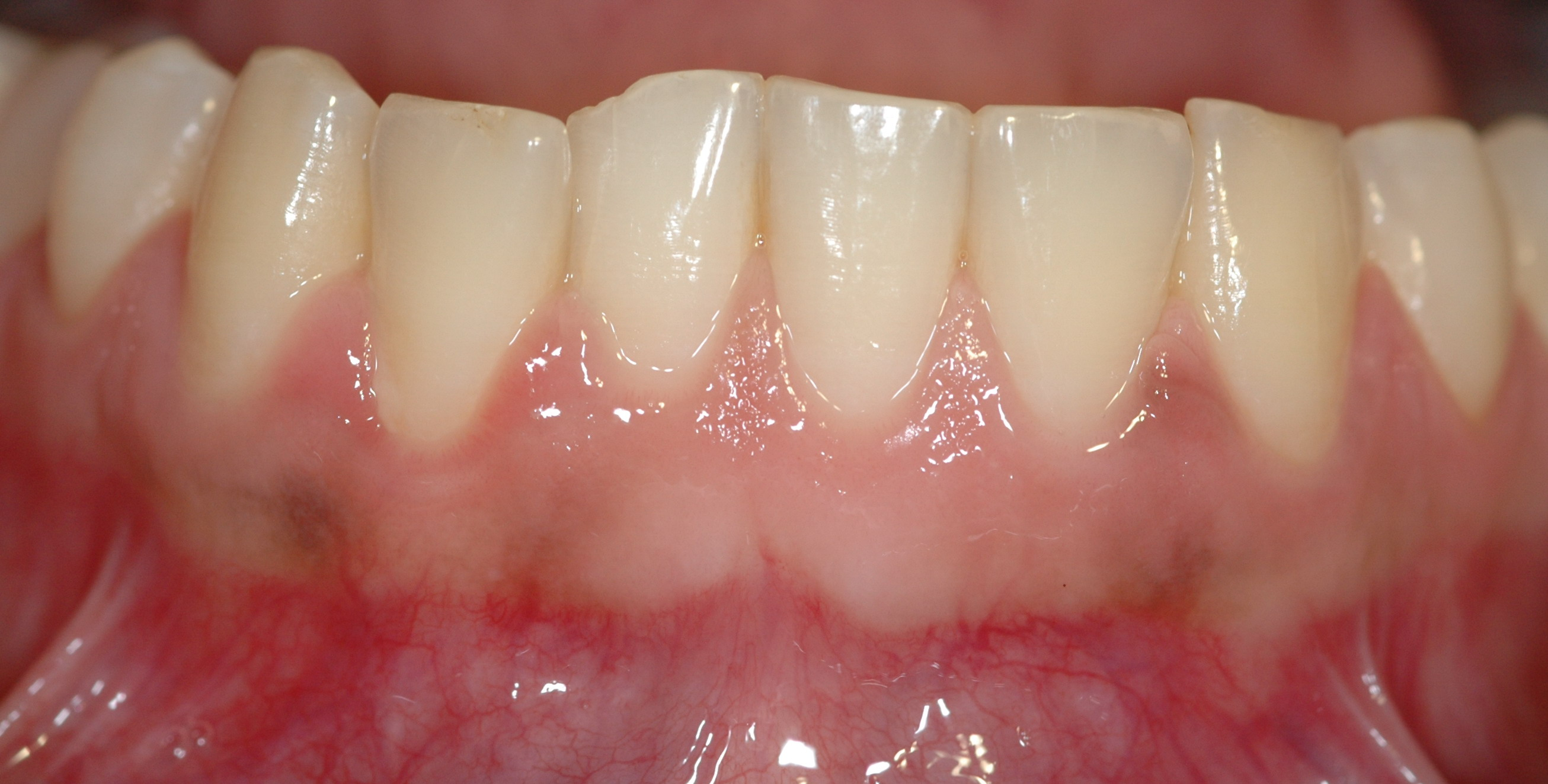 healty gingiva